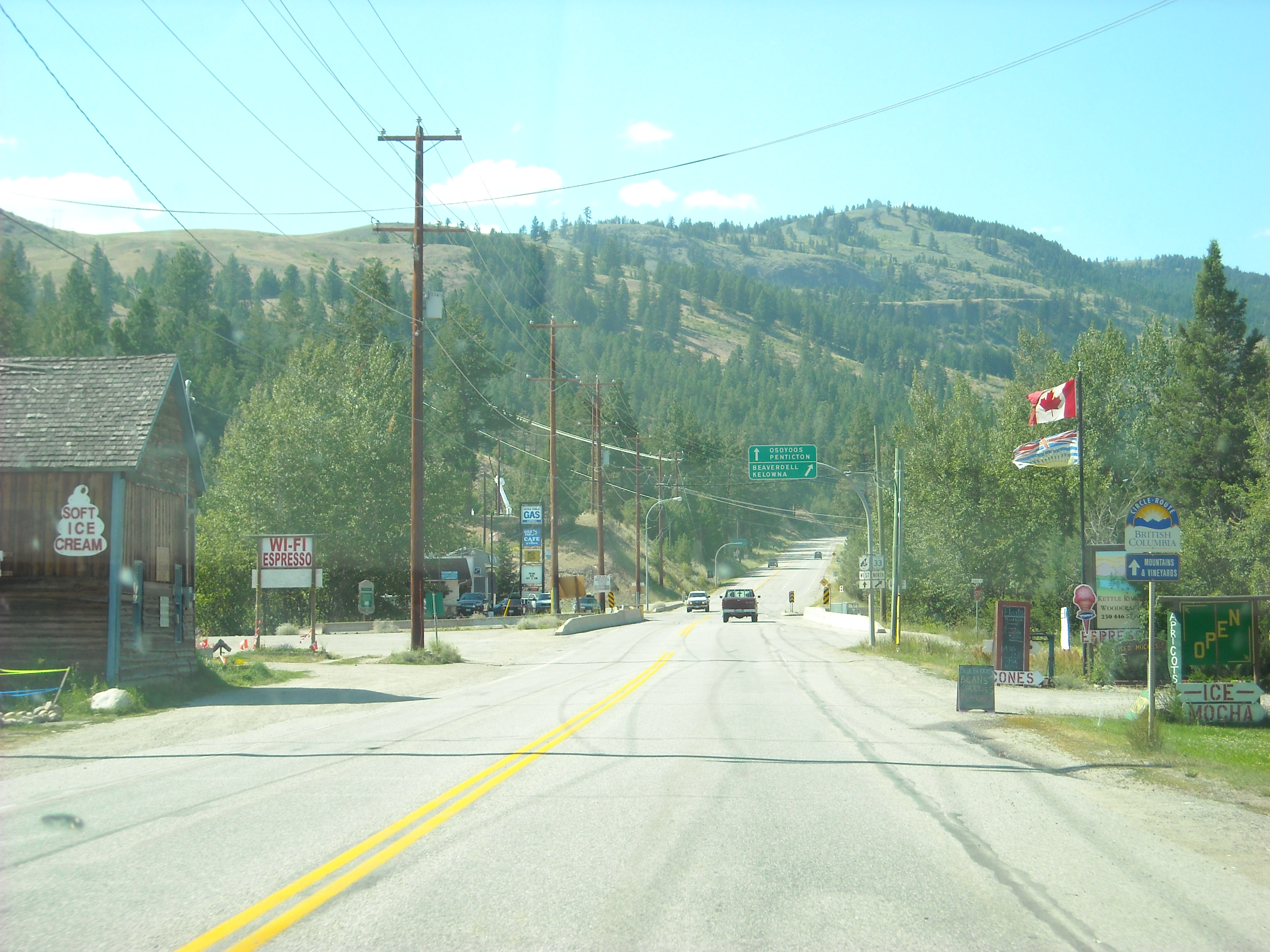 A slightly larger & more lively version of Dog River (for anyone who doesn't know what Dog River is, it is the fictional town the show Corner Gas [which I watch sometimes] takes place in), Rock Creek is just a small settlement made up of a couple stores & buildings & two gas stations; one of which appears to be fairly old & the other fairly new. For additional details on this image, see File talk:Rock Creek.jpg.